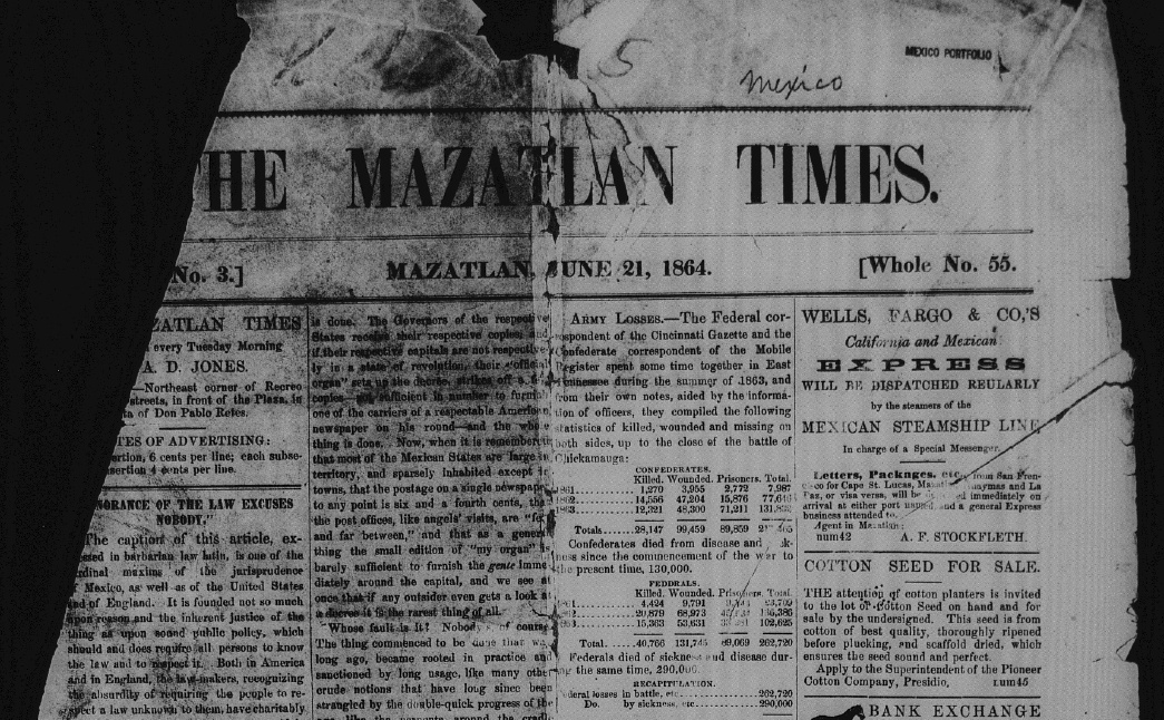 The Mazatlan Times, June 21, 1864. A weekly paper in English language in Mexico, editor: A. D. Jones.